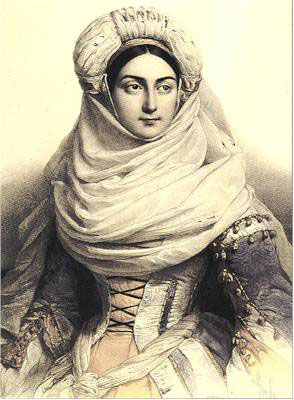 Cornélie Falcon as Rachel in Halévy's La Juive